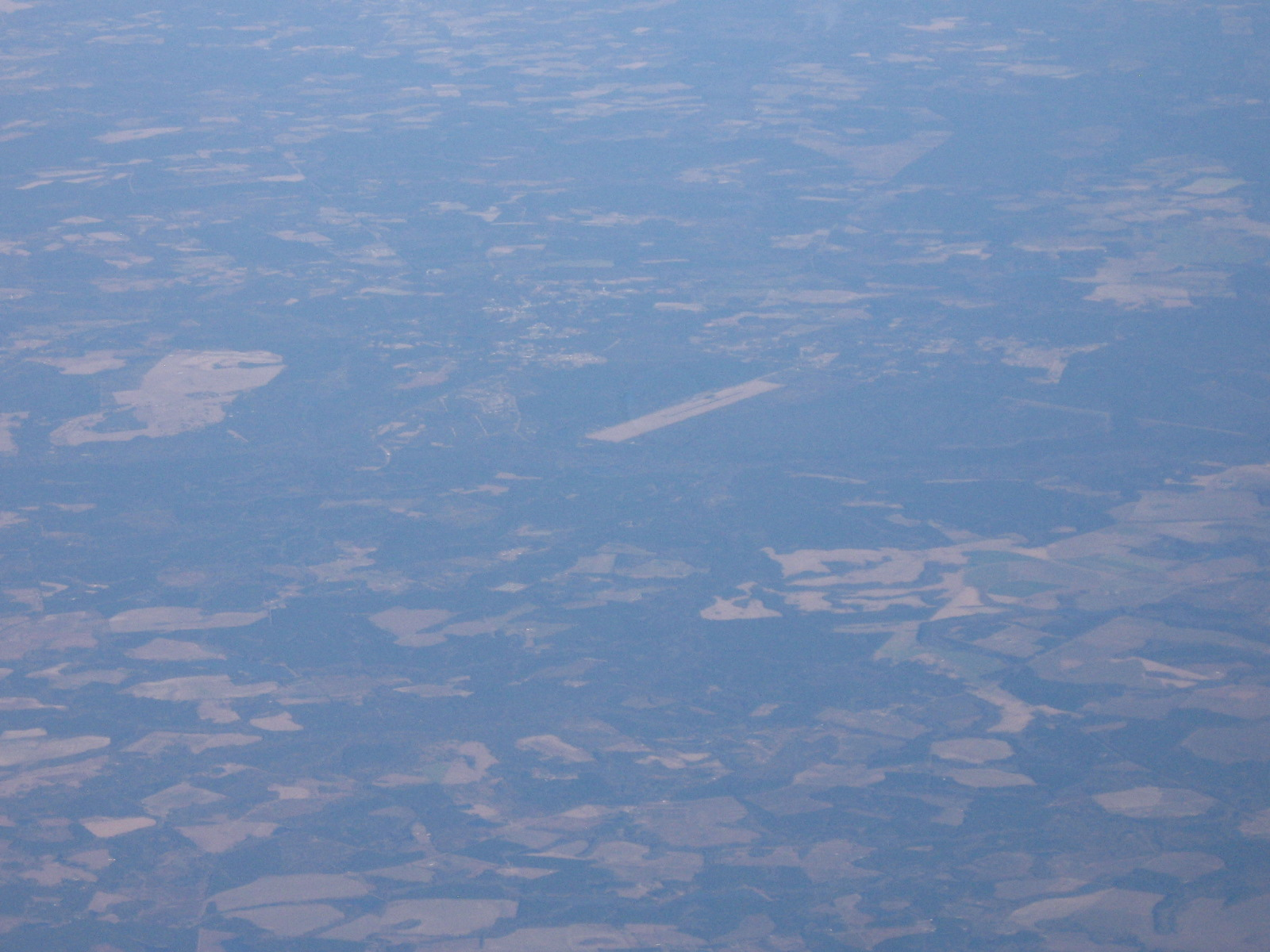 Reidsville Municipal Airport near Reidsville, Ga.